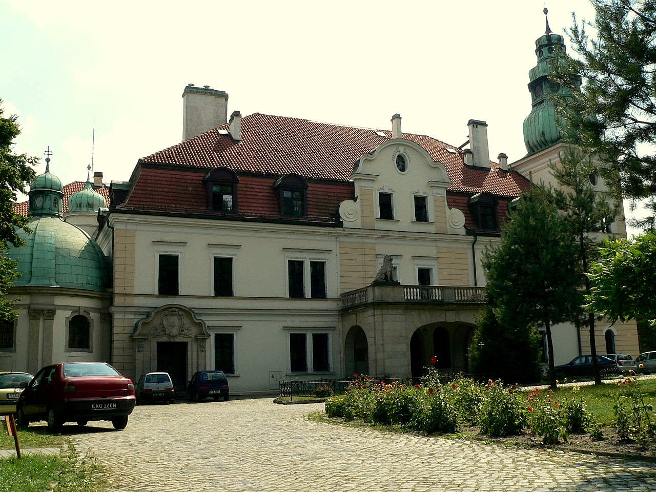 The northern elevation of the palace with the forecourt and the main entrance.